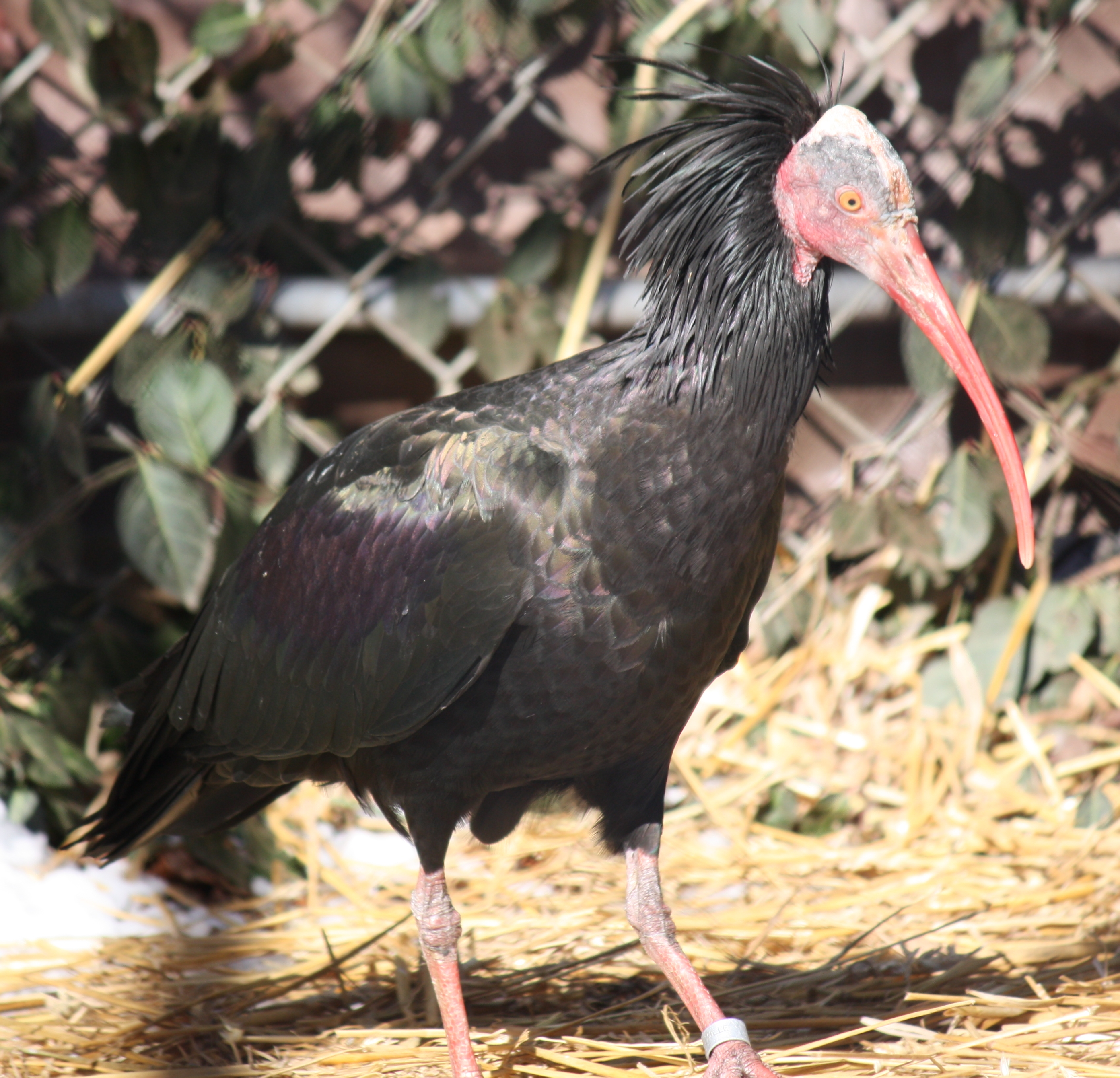 Waldrapp Ibis Geronticus eremita at the Louisville Zoo